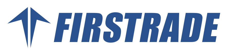 Logo of Firstrade Securities, Inc., in use since 2010.